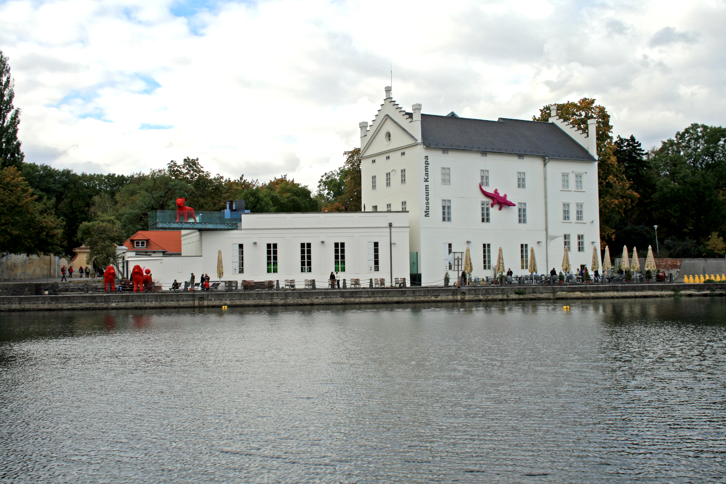 View on Kampa Museum over Vltava river in Prague, Czech Republic